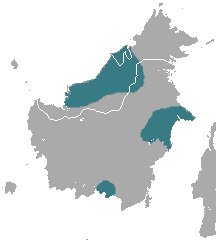 Painted Treeshrew (Tupaia picta) range